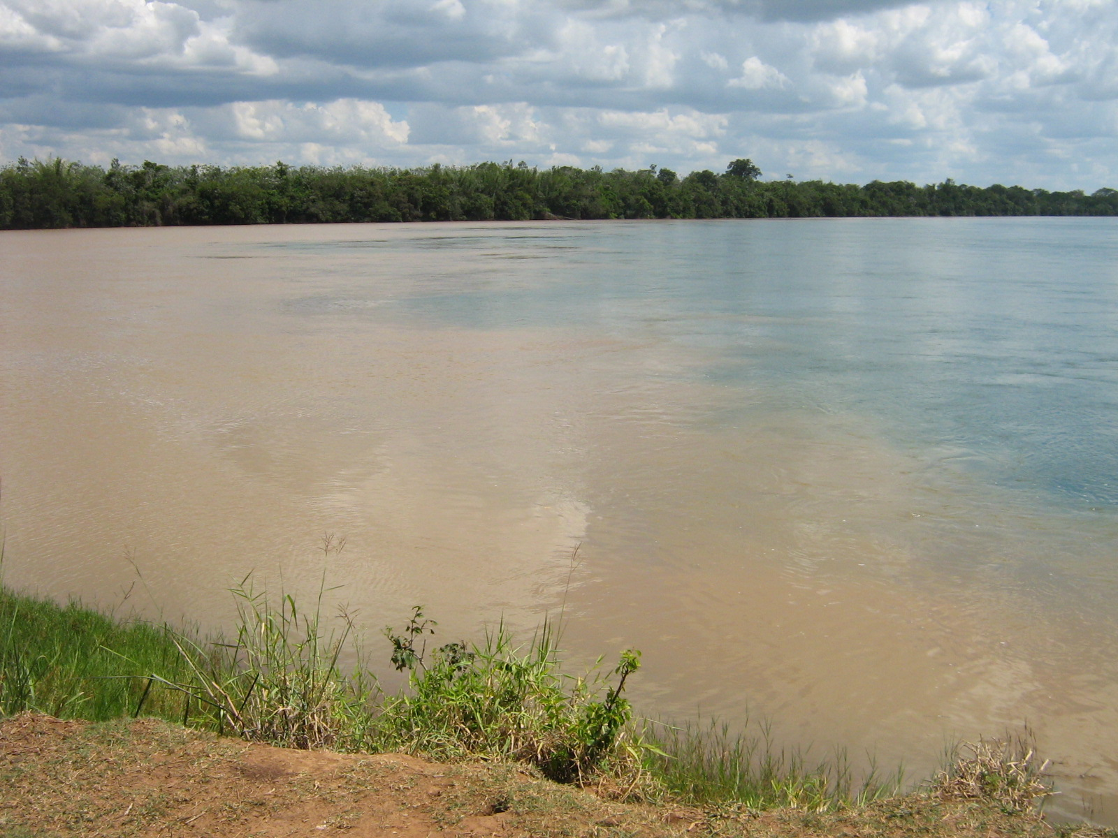 Looking South at the junction of the Ivaí river (left) onto the Paraná (right) from the Querência do Norte county in Paraná State, Brazil. Ivaí river is flowing from left to right and is carried out and squeezed by the waters of Paraná, which runs Southward. Presence of small, medium, and large scale vortices due to hydrodynamic instability effects are made evident due to the wavy interface between each river's waters.